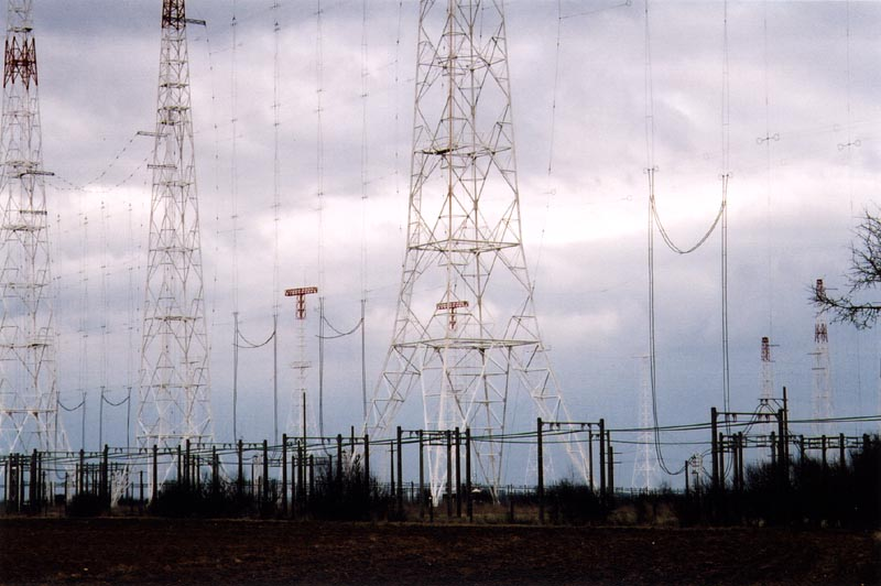 Feedlines at the foot of shortwave antennas at French international shortwave transmitting station at Issoudun. The antennas are called curtain arrays, consisting of a rectangular array of wire dipole antennas suspended in front of a vertical "curtain" of parallel wires. The antennas radiate a powerful beam of radio waves into the sky at a shallow angle above the horizon. The waves reflect off the ionosphere and return to Earth beyond the horizon, in the target country, and are picked up by listeners with shortwave radios.